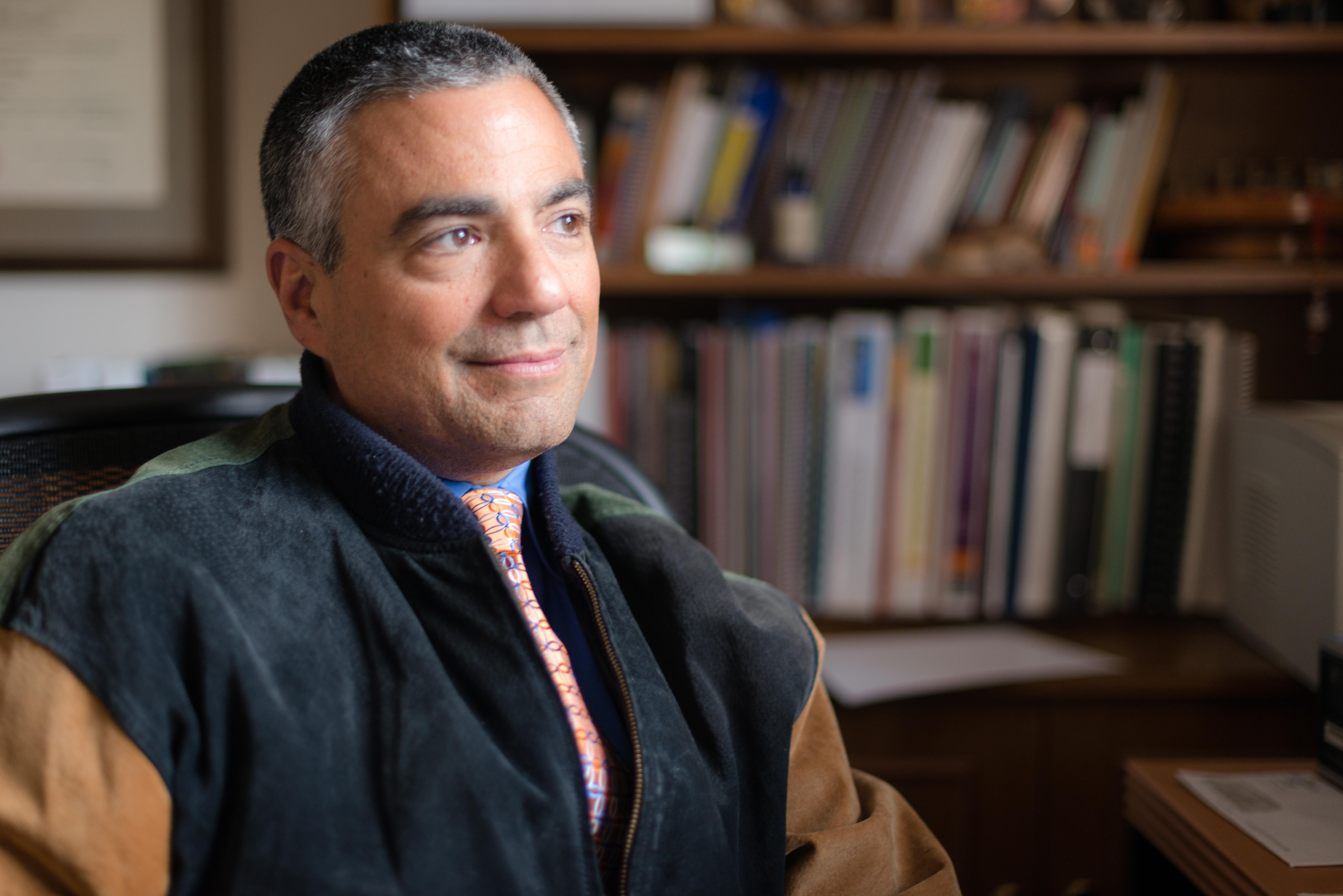 Portrait of Dr. Raymond Costabile. Portrait obtained at Dr. Raymond Costabile’s office at the University of Virginia. Natural lighting.